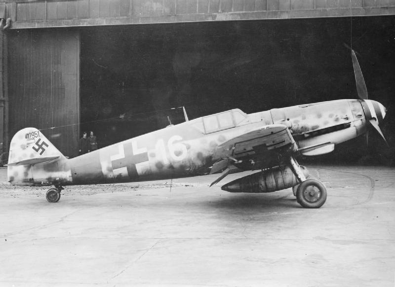 The Luftwaffe 1939-1945 Messerschmitt Bf 109G-6/U2 (W.Nr. 412951) 'White 16' of 3./JG 301, one of two aircraft which landed in error at Manston on 21 July 1944. Both fighters were on a night 'Wilde Sau' operation against RAF bombers. The pilot of this aircraft was Leutnant Horst Prenzel, Staffelkapitan of 3./301. The aircraft was flown by the RAF until it was written-off in a take-off accident on 23 November 1944